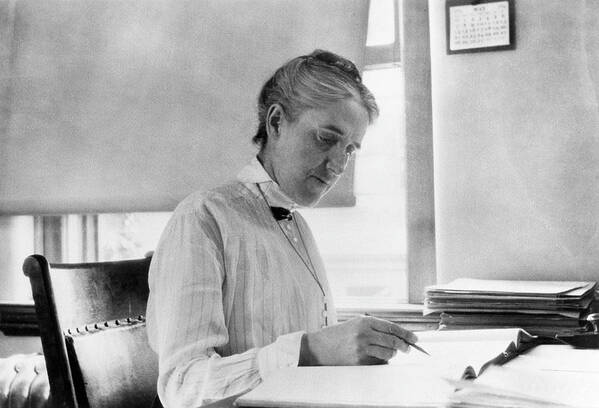 Henrietta Swan Leavitt (July 4, 1868 – December 12, 1921)